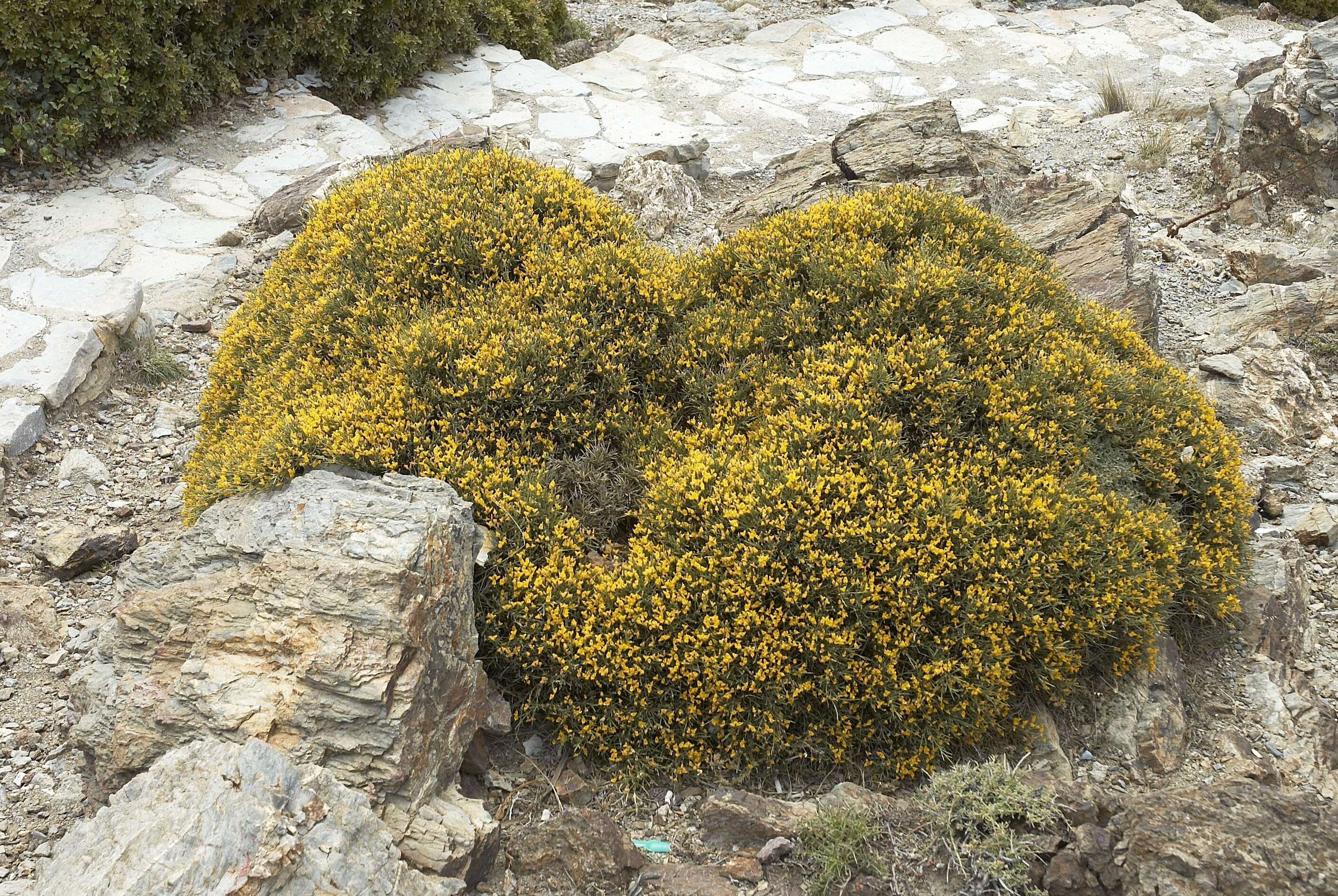 Genista acanthoclada (determined from book Wild Flowers of Crete ISBN 9608227771). Photo taken in Vai, Crete